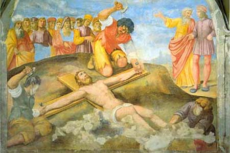 Martyrdom of saint Agricola, fresco at Bologna, Italy